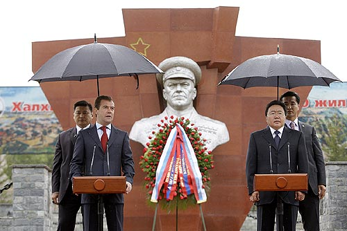 ULAN BATOR. Ceremony presenting Mongolian and Russian state decorations to Mongolian and Russian veterans of the Battle of Khalkhin Gol.